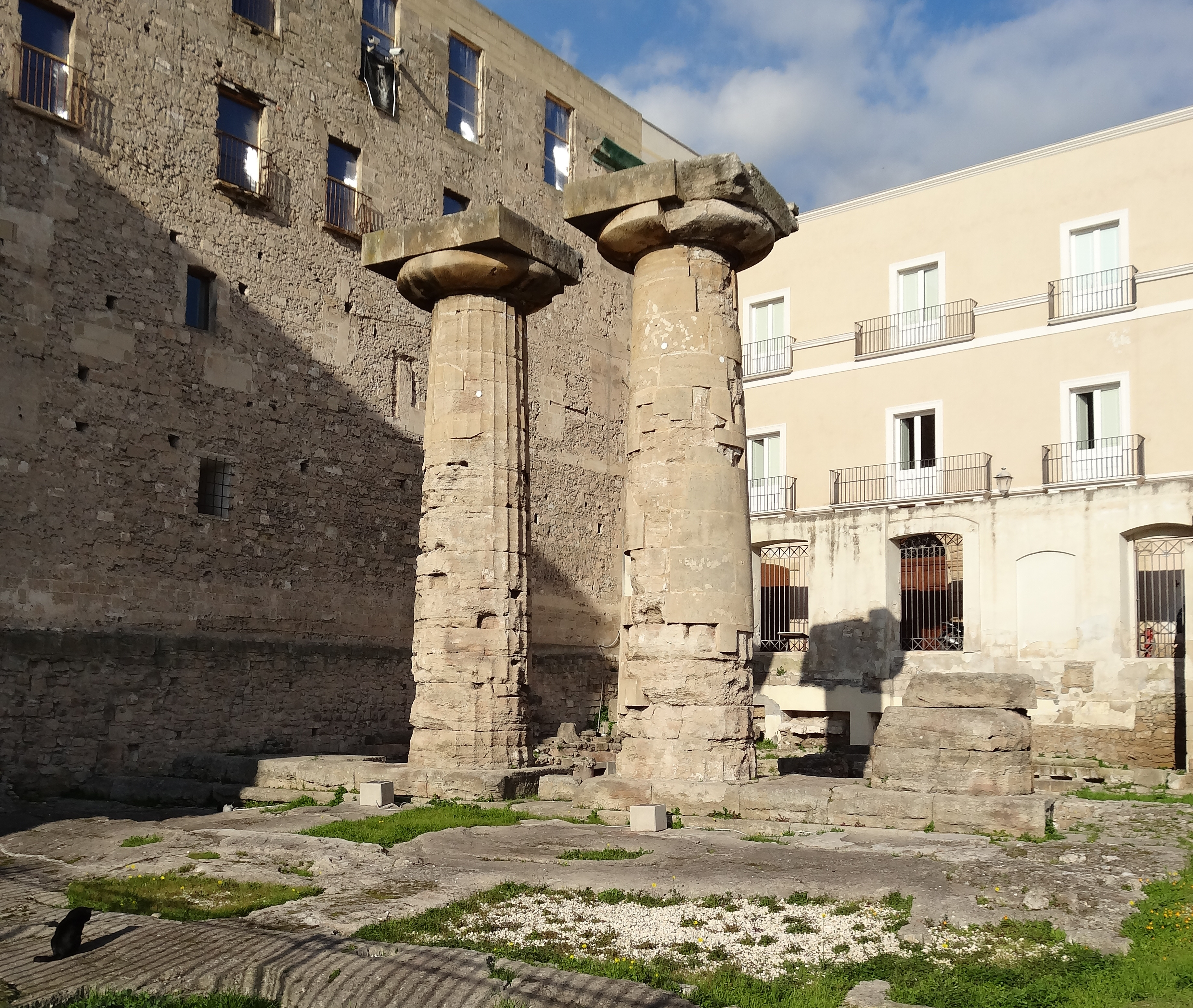 Doric colums of the Temple of Poseidon (?), ancient Taras, modern Taranto, Italy.